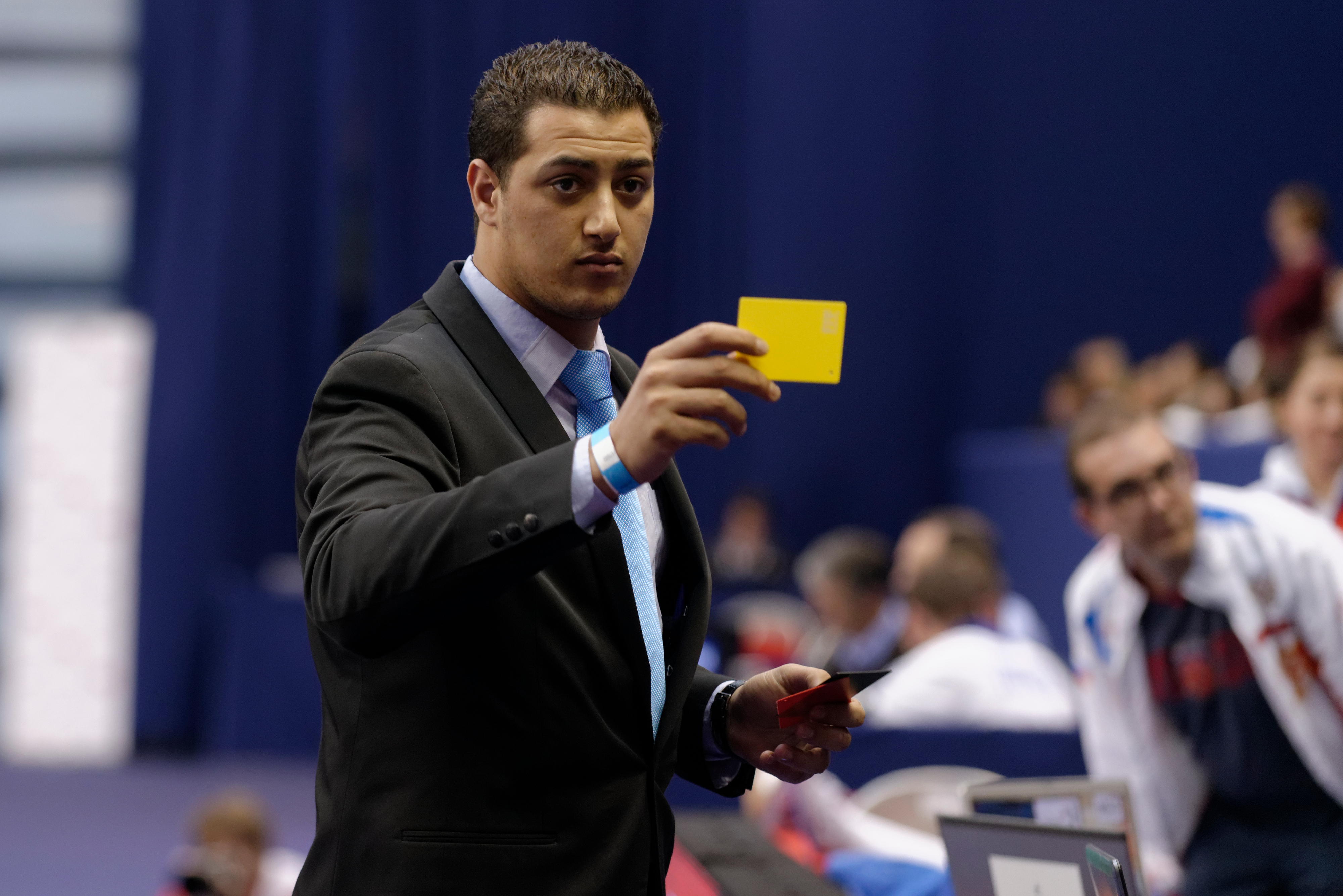 Referee Mohamed Ayoub Ferjani issues a yellow card to the Italian coach for disturbing good order during the Italy v Russia semi-final of the team event of the 2014 Challenge International de Paris (men's foil World Cup).